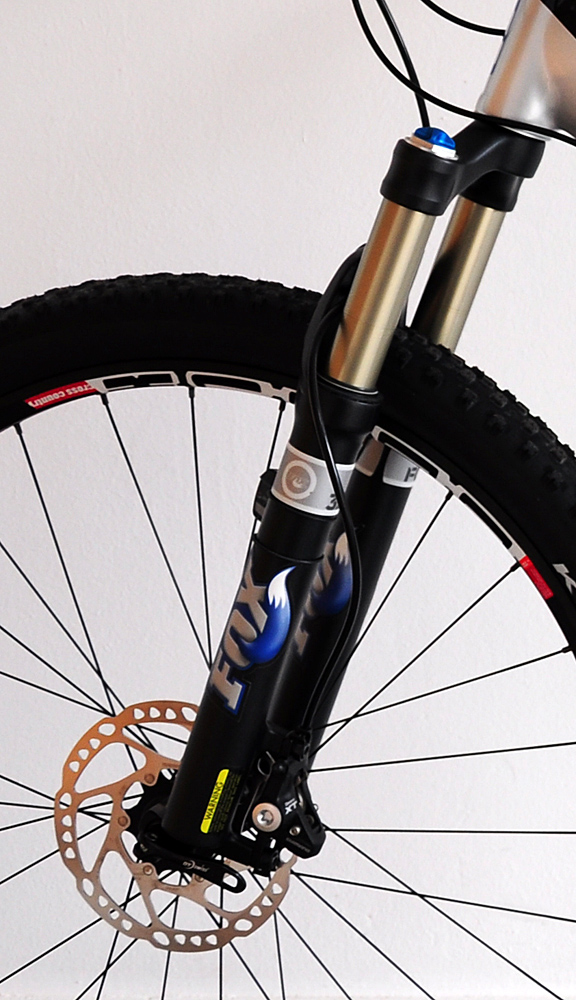 Fox 32 RL Fork